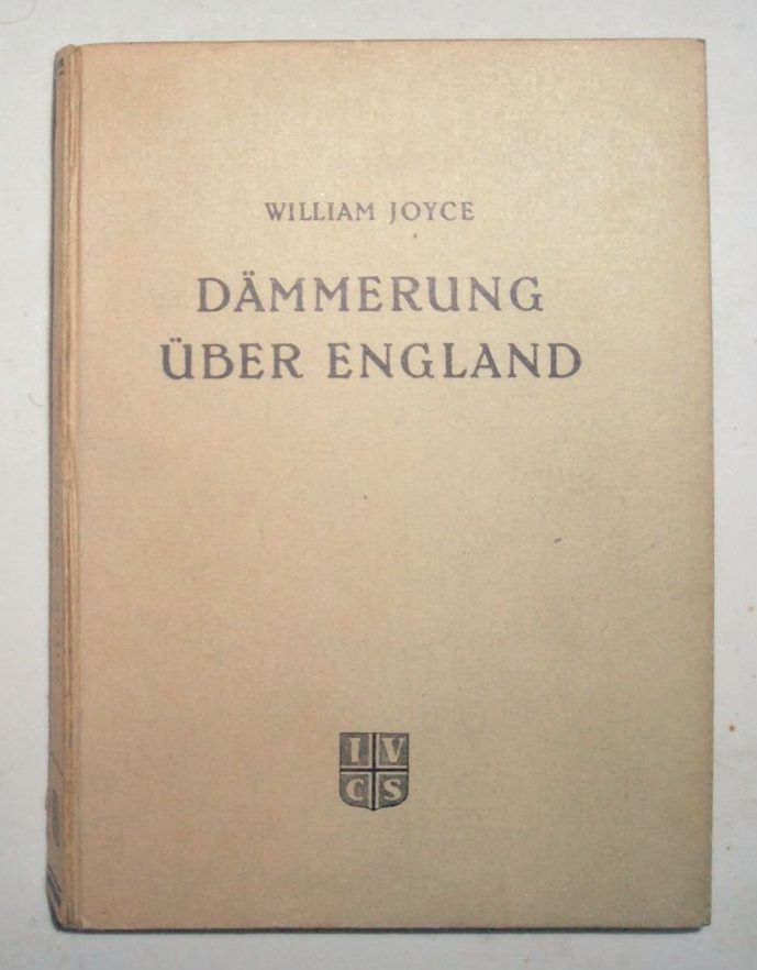 The cover of Dämmerung über England (Twilight Over England), written by William Joyce, a British-German Nazi sympathiser and author.